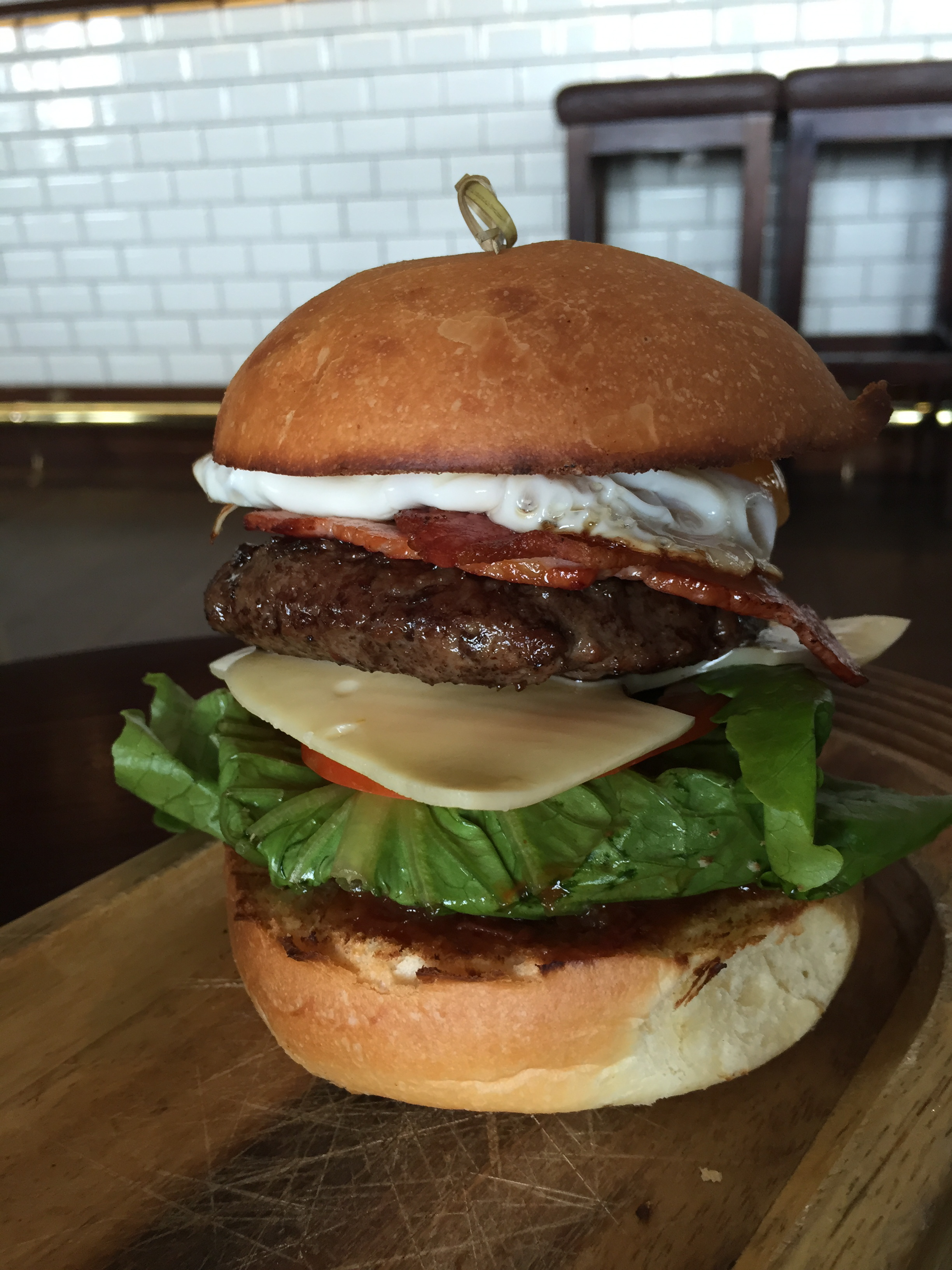 Hamburger at the Regatta Hotel